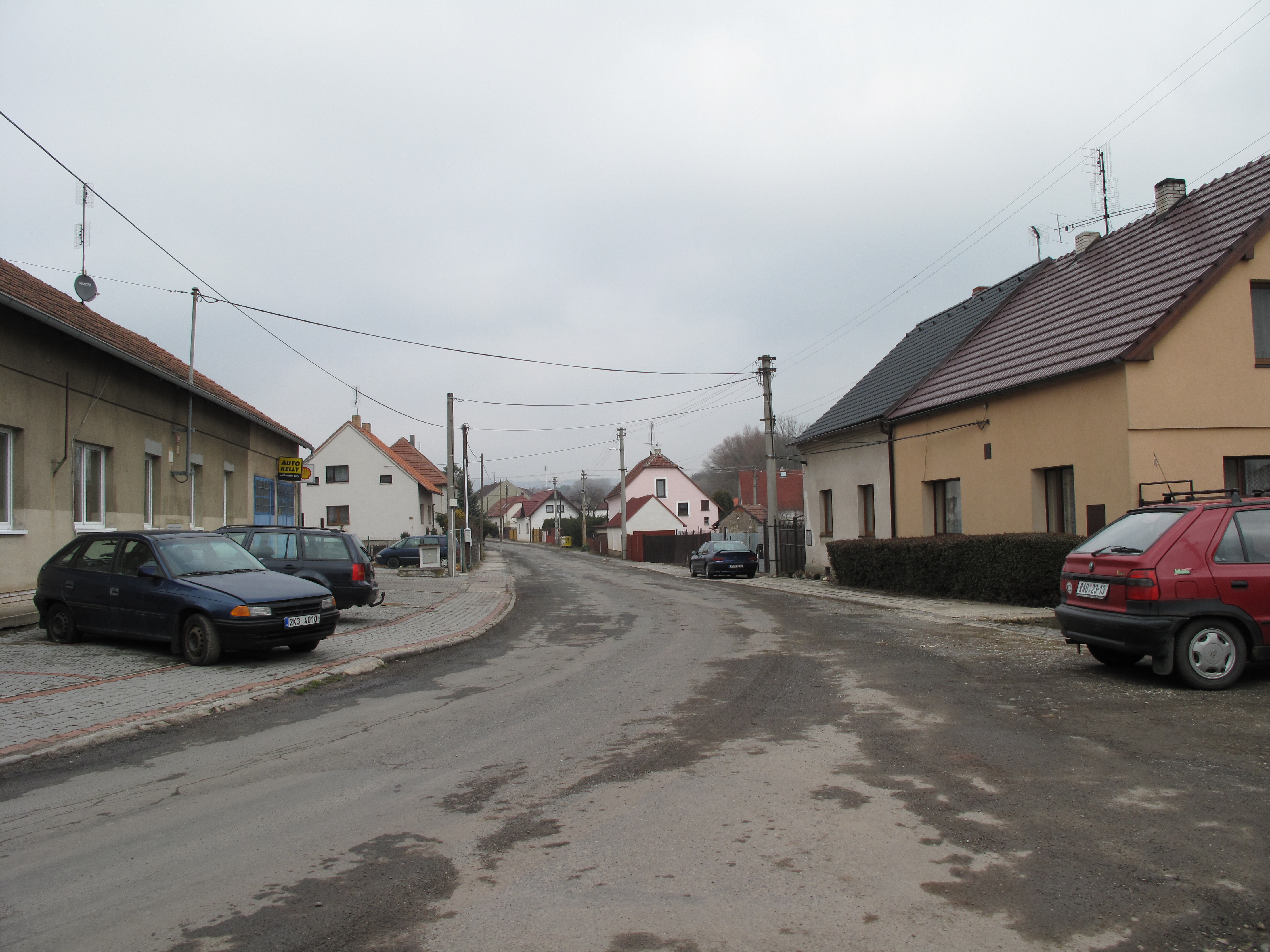 Road with cars in Krupá village, Rakovník District, Czech Republic.